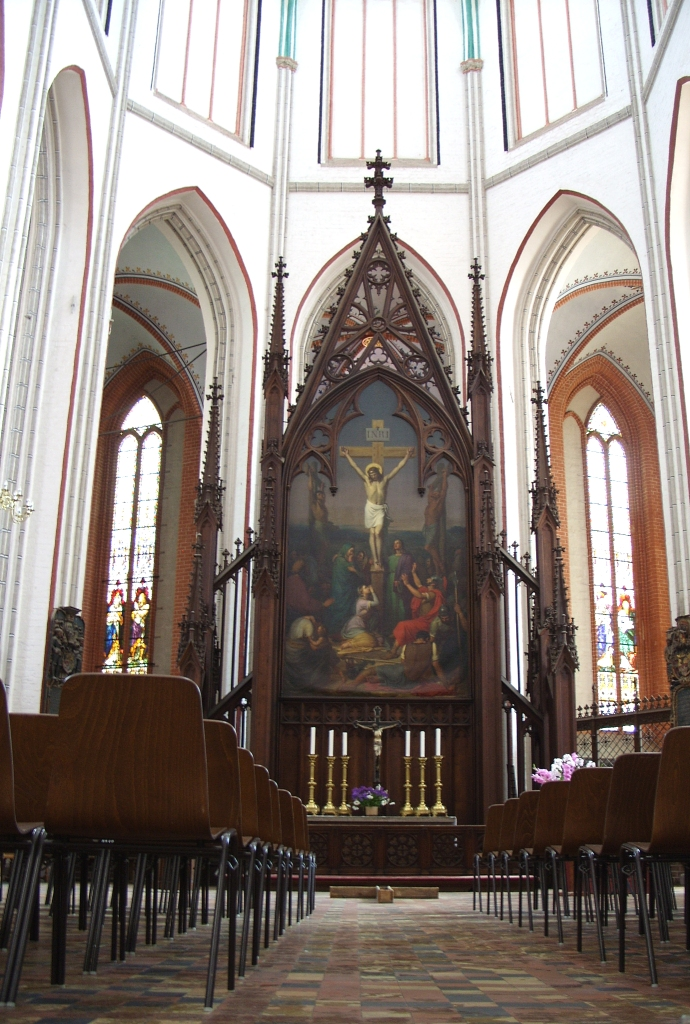 Gothic revival crucifixion altar by Gaston Lenthe in the Schwerin Cathedral Schwerin, Germany, designed and painted by Gaston Lenthe